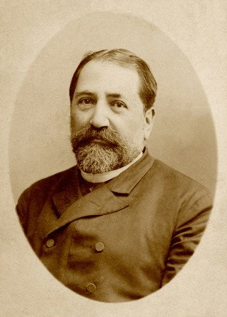 Georgian author (etc.) Ilia Chavchavadze